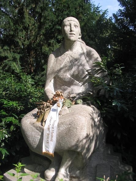 Monument „Trümmerfrau“ (german for „rubble women“) in the park Volkspark Hasenheide in Berlin-Neukölln. Created in 1955 by Katharina Szelinski-Singer